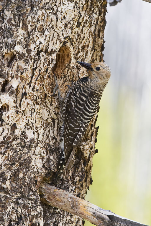 Williamson's Sapsucker, Sphyrapicus thyroideus, female Hell's Canyon, OR June 14